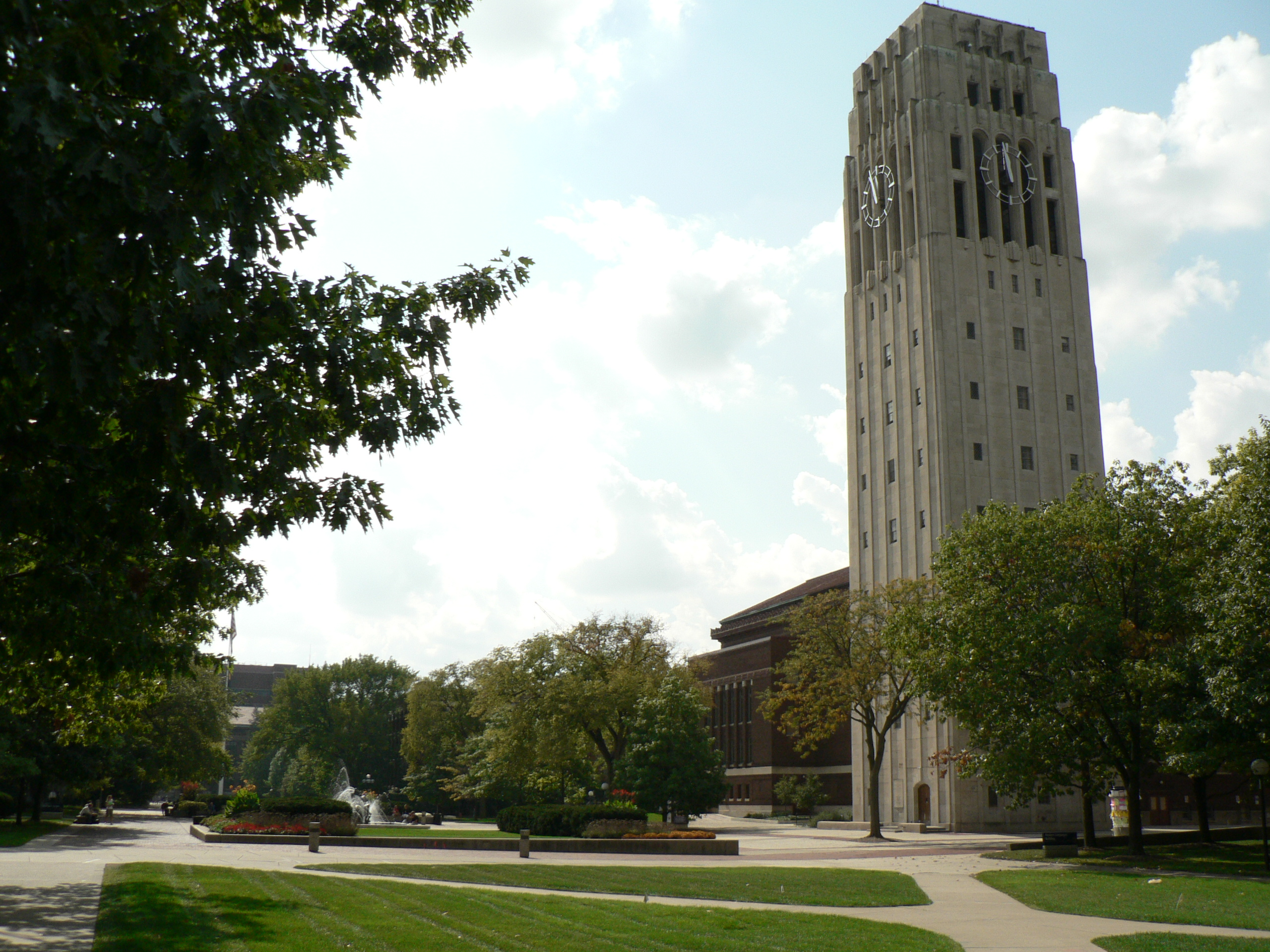 University of Michigan, Burton Tower